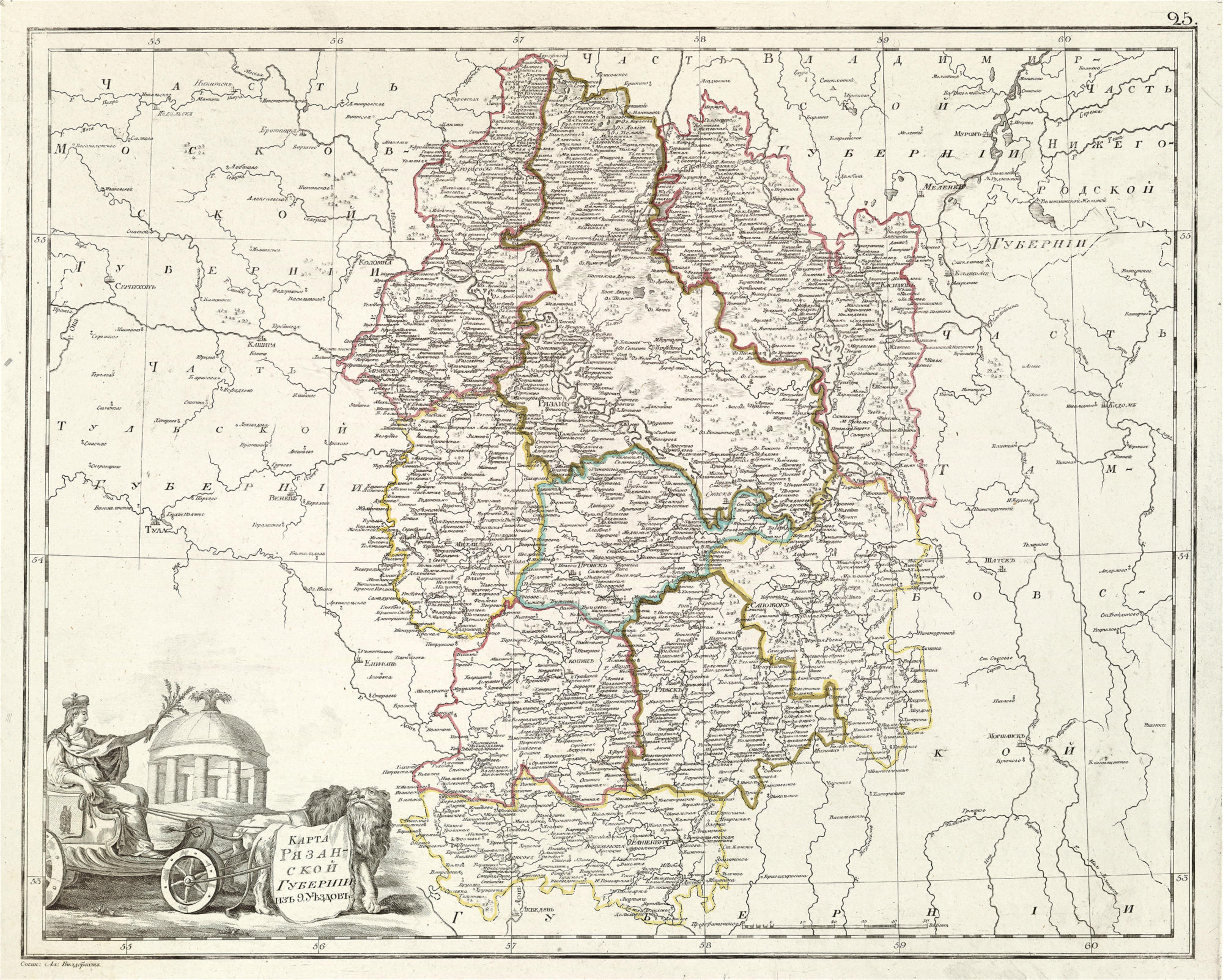 Atlas of Russian Empire. 1800 year. List 25. Ryazanskaya Province from 9 uyezds